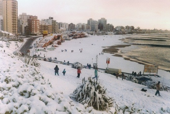 Snow covers Mar del Plata, August 1, 1991.